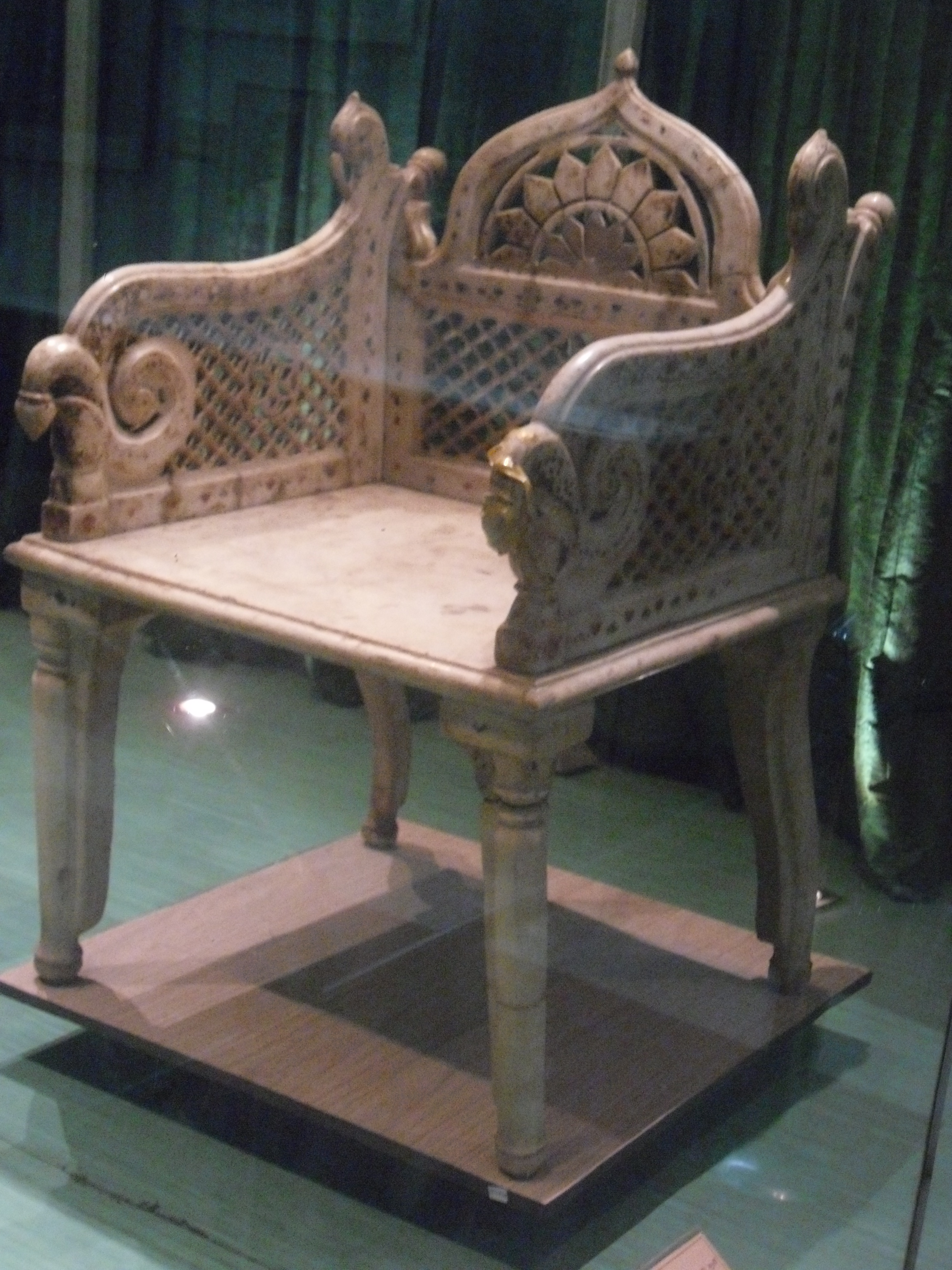 Chair of Bahadur Shah Zafar in the museum at Mumtaz Mahal, Red Fort